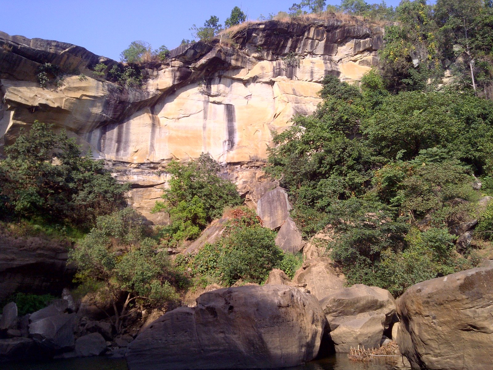 Tourist attraction place in Manendragarh